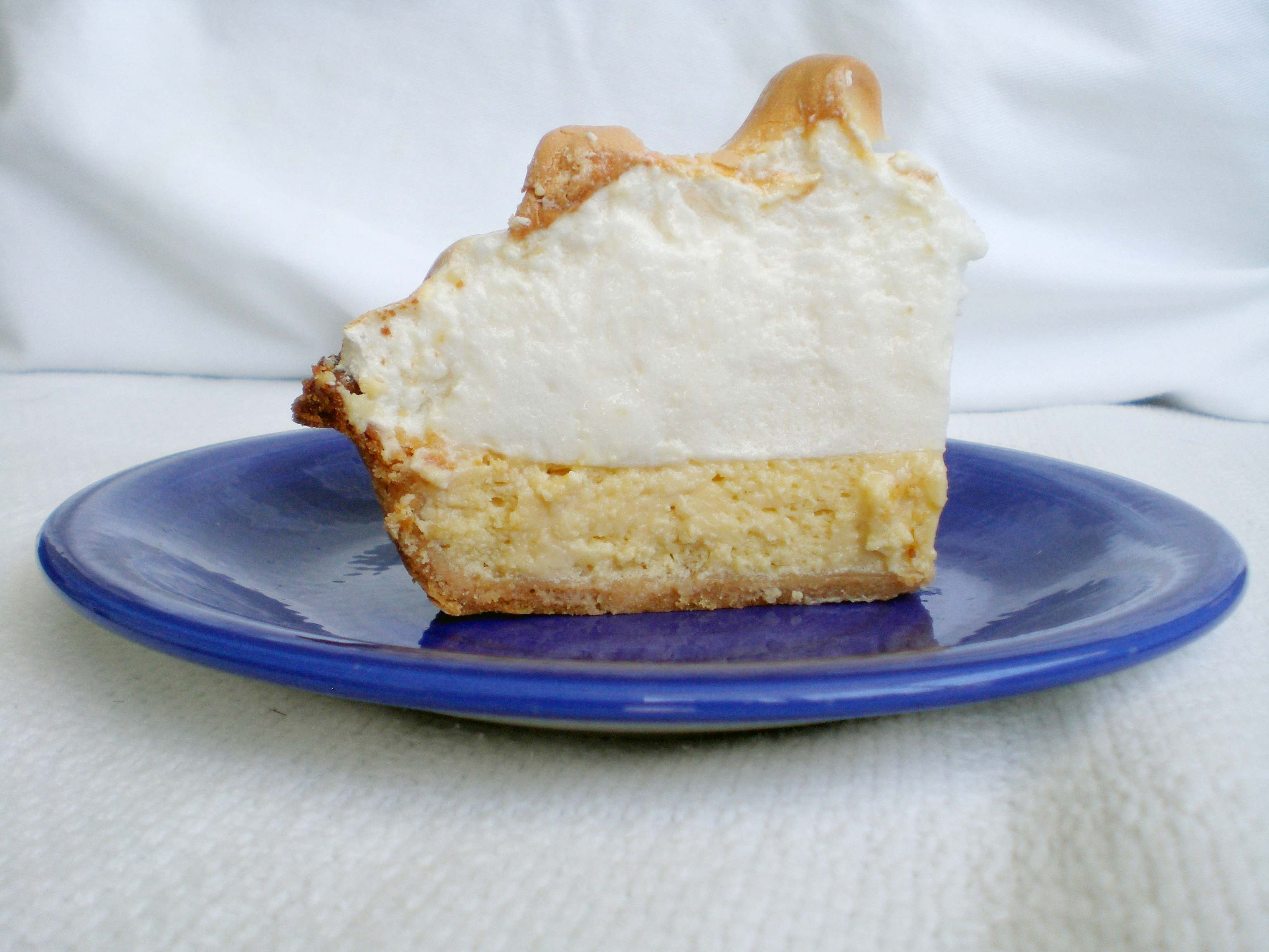 Digital photo taken by Marc Averette. An authentic slice of key lime pie.